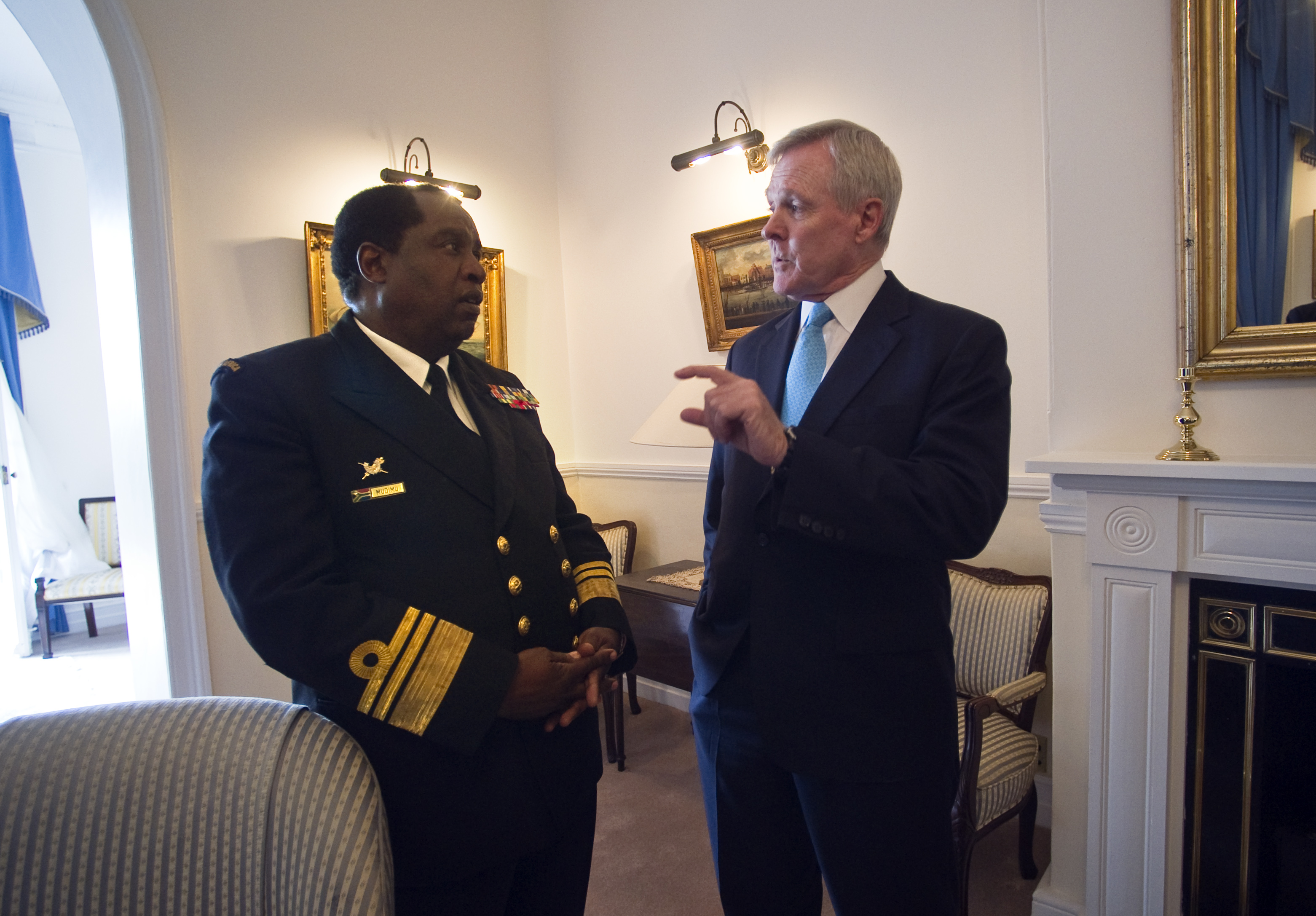 CAPE TOWN, South Africa (Aug. 12, 2011) Secretary of the Navy (SECNAV) the Honorable Ray Mabus visits with the Chief of the South African Navy Vice Adm. Johannes Refiloe Mudimu. (U.S. Navy photo by Mass Communication Specialist 1st Class Kevin S. O'Brien/Released)